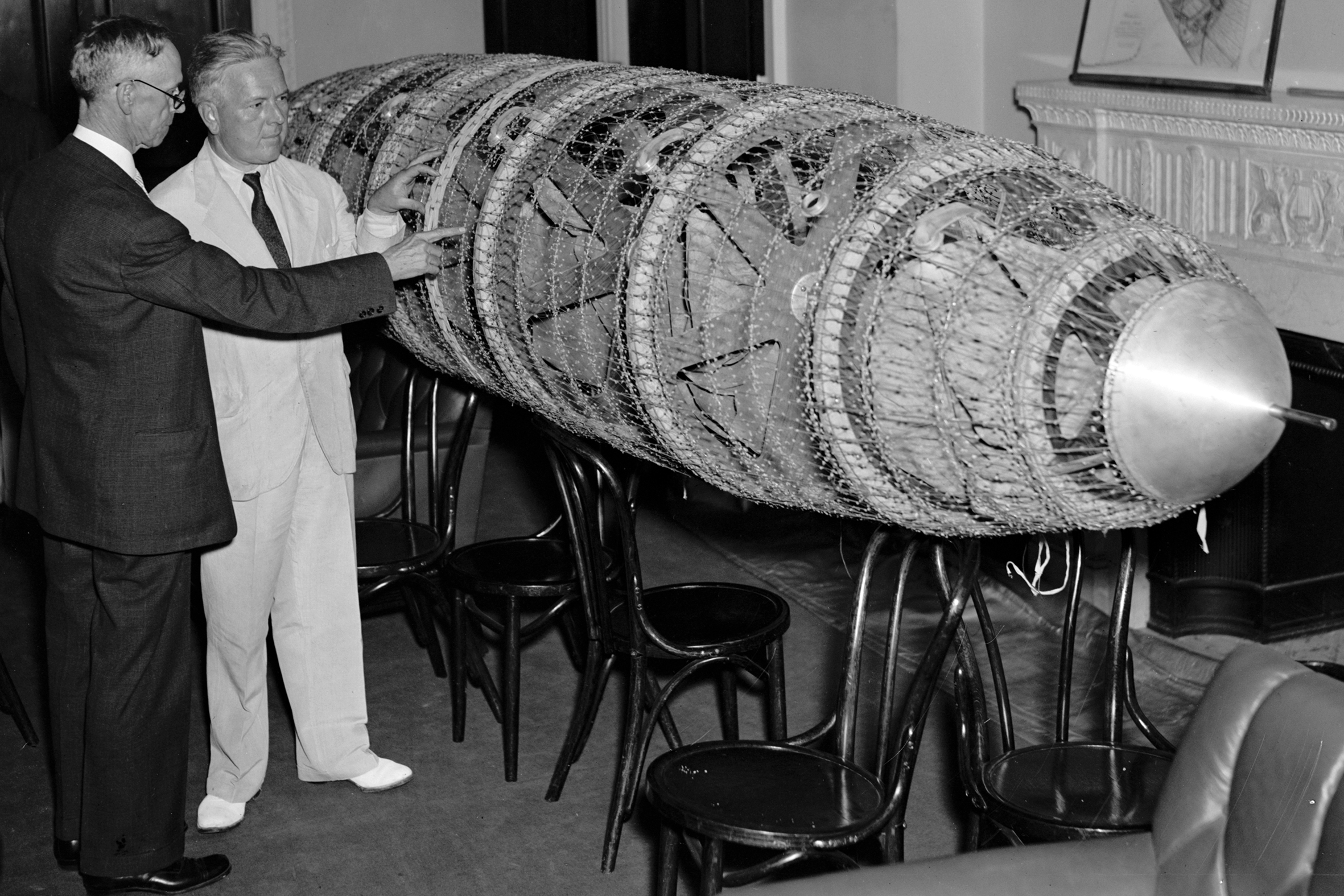 Original description: Congress sees model of new proposed American-designed dirigible. Washington, D.C. June 9. Rep. Edward A. Kenney, (right) of New Jersey, Chairman of the House Interstate Commerce Committee, viewing a model of a new american designed dirigible displayed at the Capitol today. Roland B. Respess, President of the Respess Aeronautical Engineering Corp., is pointing out the features of the ship to the House member. The House Interstate Subcommittee is hearing the witness on a bill recently introducted to authorize the loan of $12,000,000 for constructing two eight-million-cubic-foot dirigible airships, a large american airship plane, and Atlantic operating terminal with a veiw toward establishing twice-a-week American Transatlantic airship service.